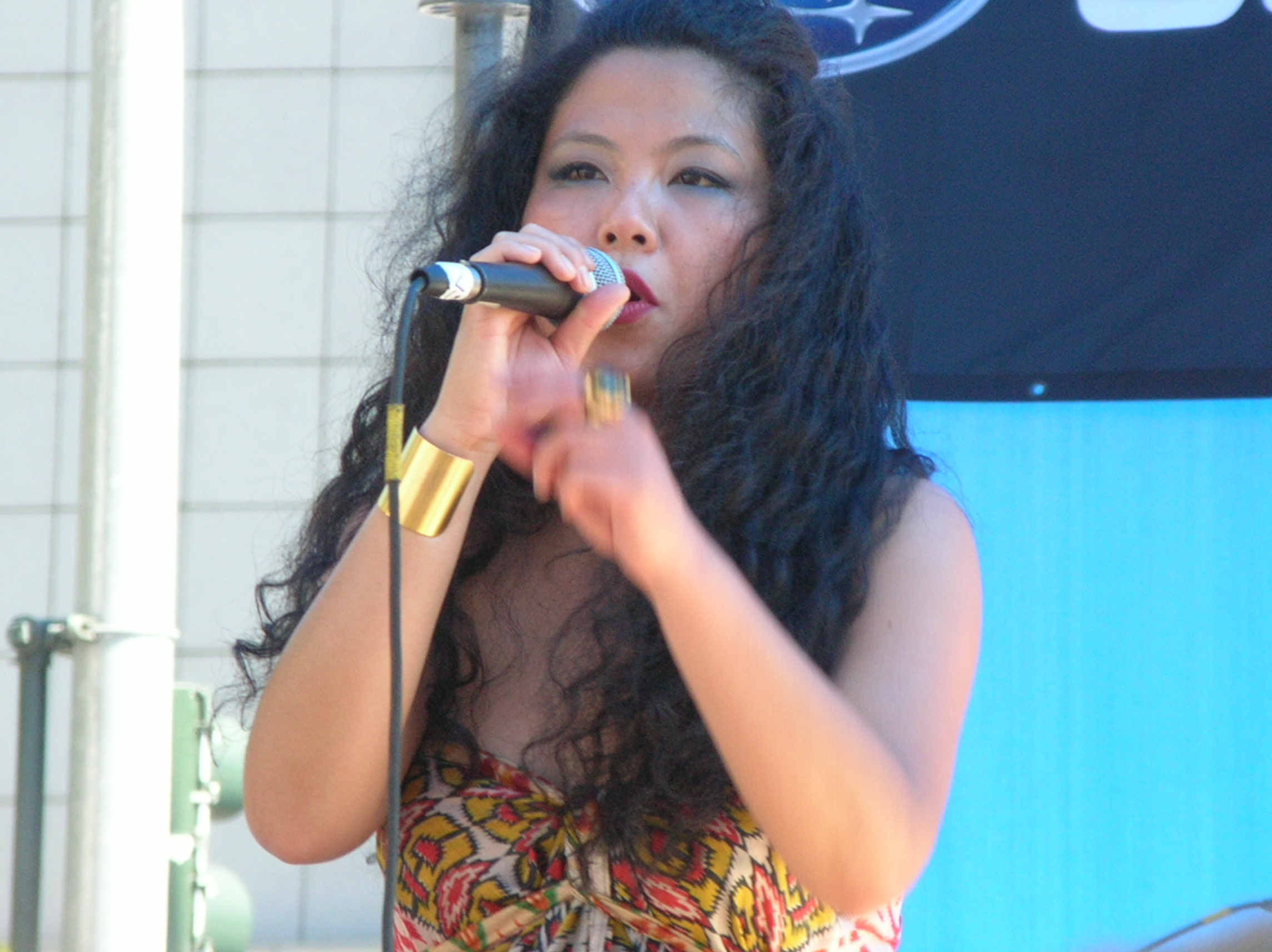 Joyo Velarde performing at the 5th Annual Asian Heritage Street Celebration in San Francisco, California.